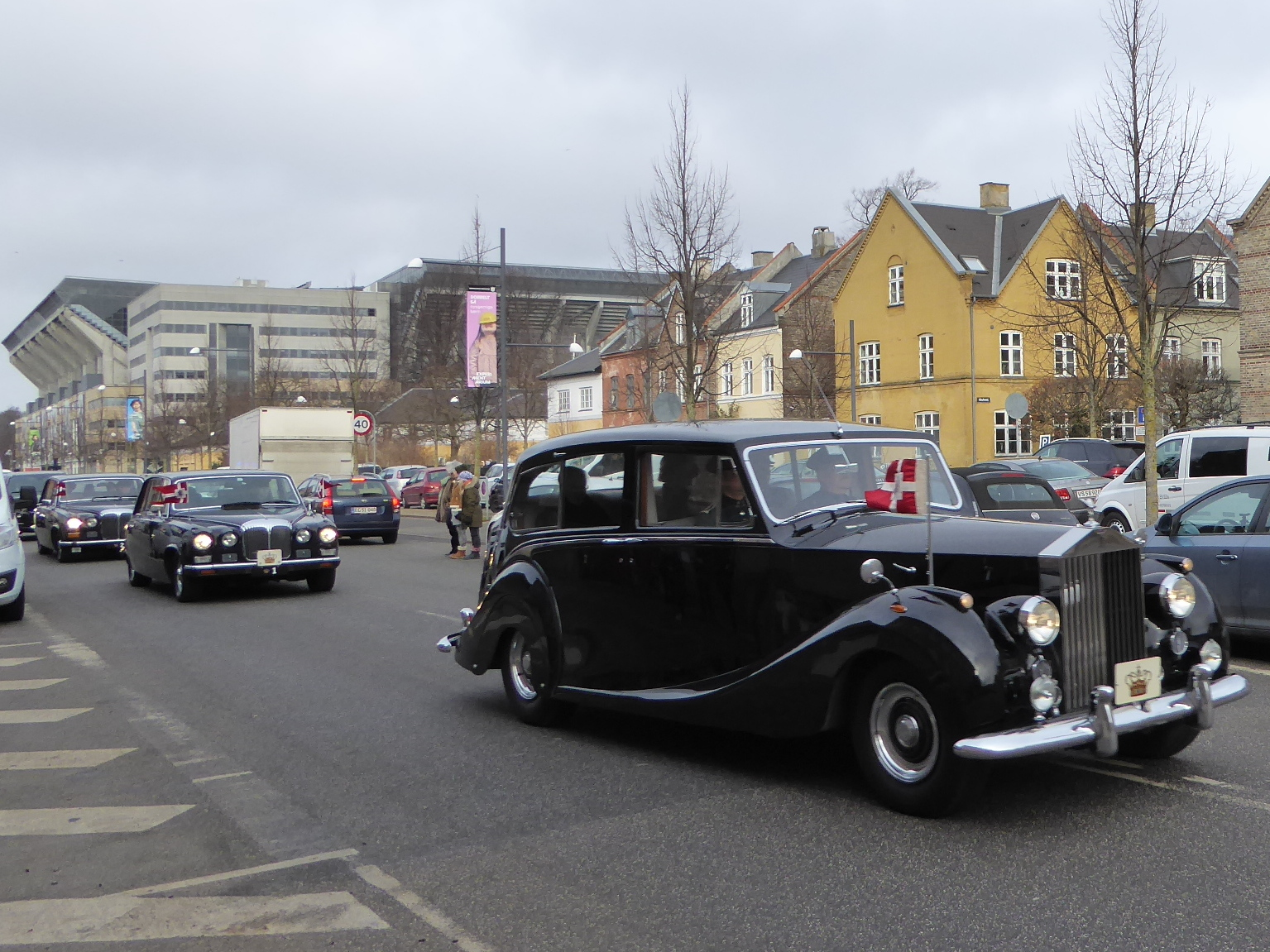 Cortege at Øster Allé in Copenhagen transporting the deceased Prince Henrik from Fredensborg to Amalienborg. The automobile Store Krone with Queen Margrethe II.